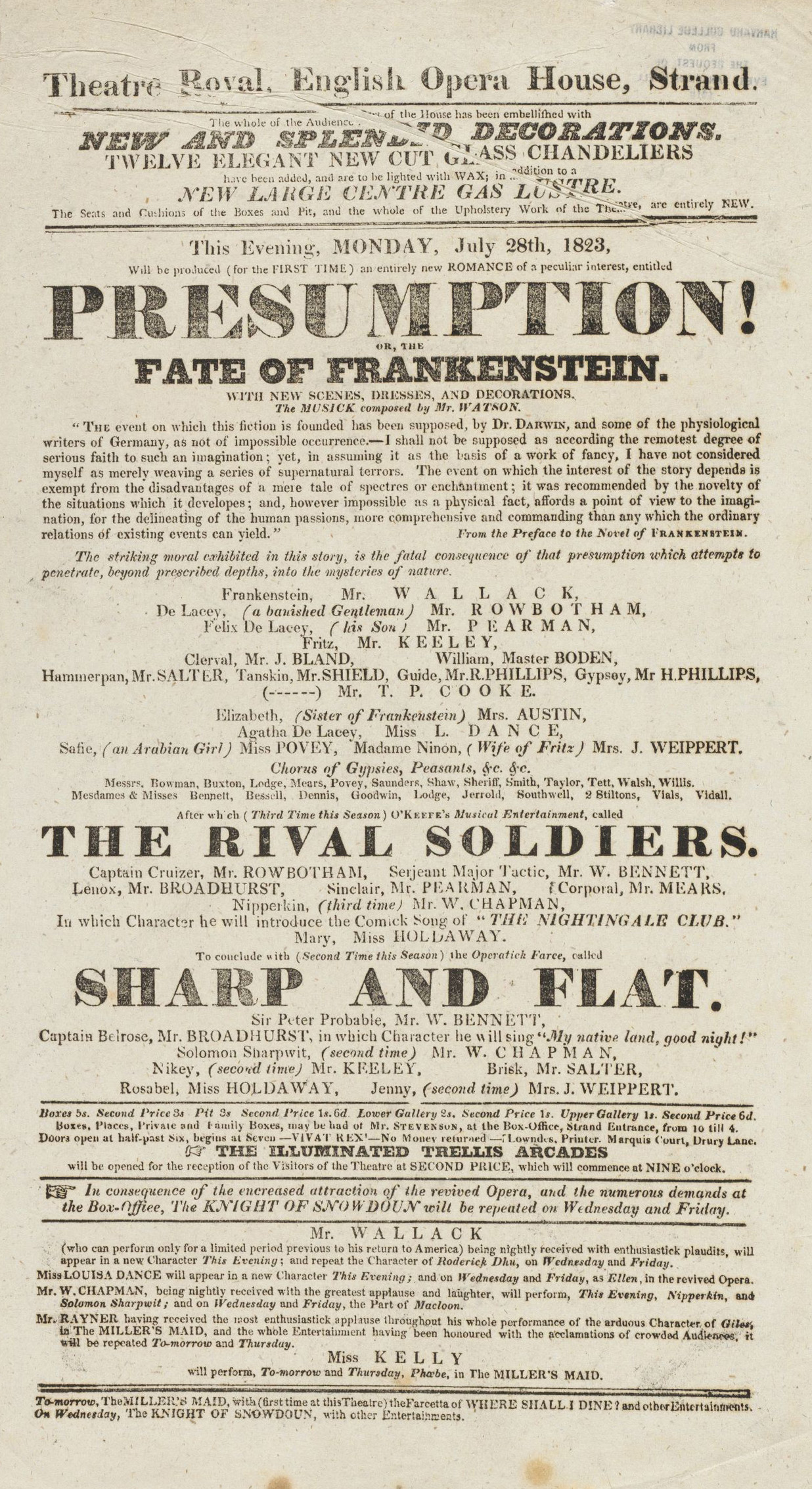 Playbill: Presumption! Or the Fate of Frankenstein, English Opera House, 1823 July 28. Playbills and Programs from London Theaters (TCS 63), Harvard Theatre Collection, Houghton Library, Harvard University